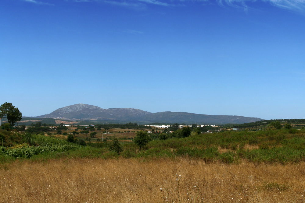 Montejunto from the east